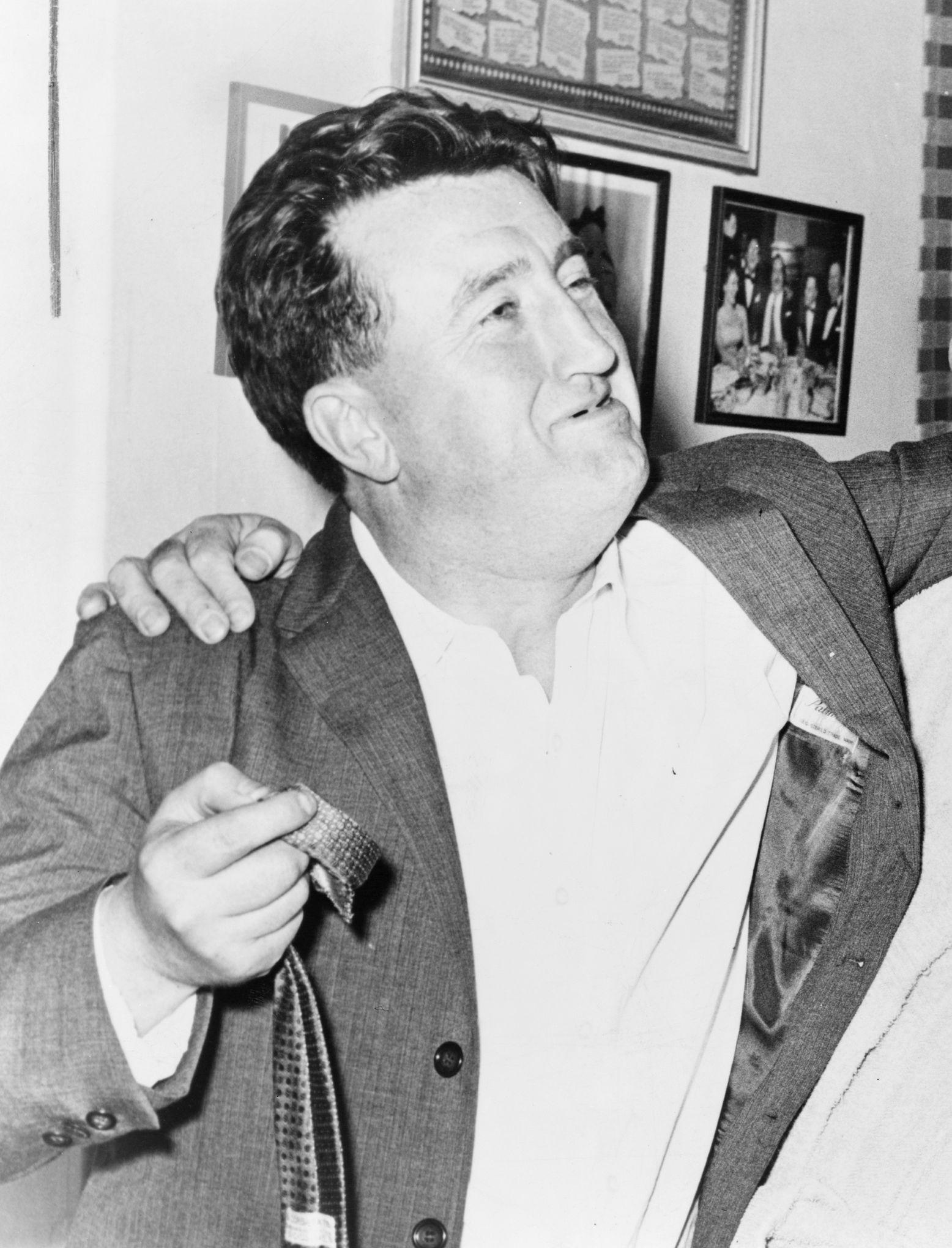 Brendan Behan in Jackie Gleason's dressing room at show "Take me along".